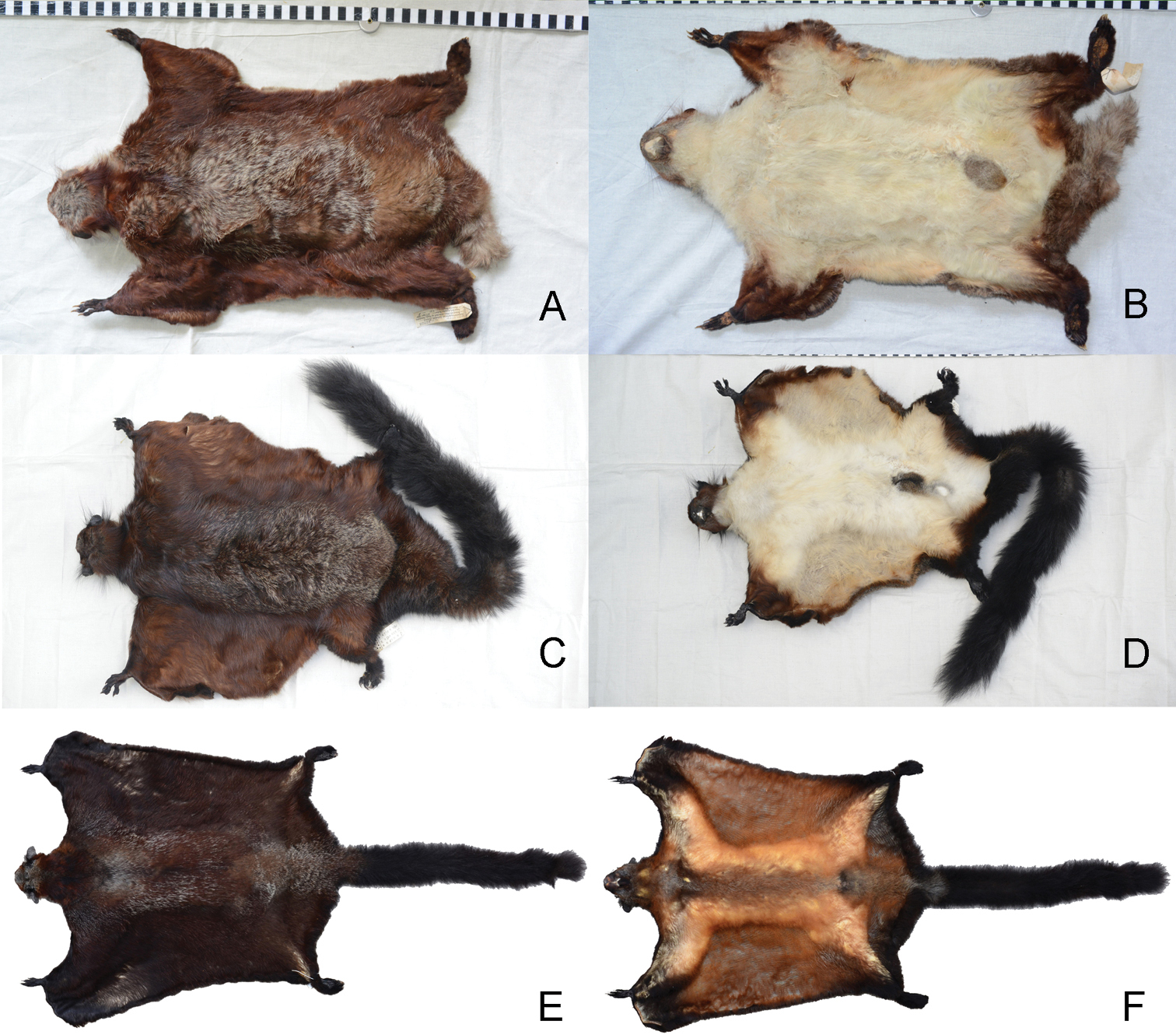 Skins of the three known Biswamoyopterus species A, B (ZSI 20705, holotype) Biswamoyopterus biswasi C, D (KIZ 034924, holotype) Biswamoyopterus gaoligongensis sp. nov. E, F (NUoL FES.MM.12.163, holotype) Biswamoyopterus laoensis. The images E, F were derived from Sanamxay et al. (2013).